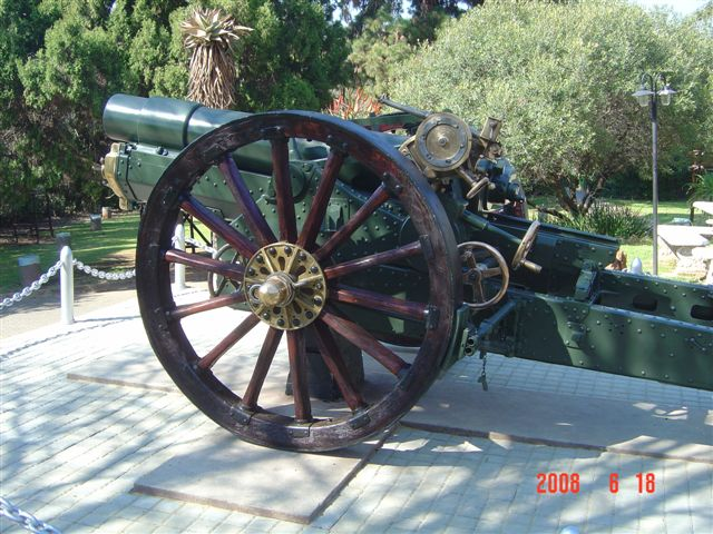 Photograph of BL 6 inch 26 cwt howitzer. This is the memorial to the 71st (Transvaal) Siege Battery of World War I, at Johannesburg Zoo, South Africa. Restored by The Johannesburg Branch of the Gunner's Association. See also Image:BL6inch26cwtHowitzer71SiegeBatteryMemorialJburgZooRear.jpg Image:BL6inch26cwtHowitzer72BatteryMemorialKimberley.JPG Image:BL6inch26cwtHowitzer73BatteryMemorialCapeTown.JPG Image:BL6inch26cwtHowitzer74SiegeBatteryMemorialBloemfontein.jpg Image:BL6inch26cwtHowitzer75BatteryMemorialDurban.jpg Image:BL6inch26cwtHowitzer125SiegeBatteryMemorialPretoria.JPG